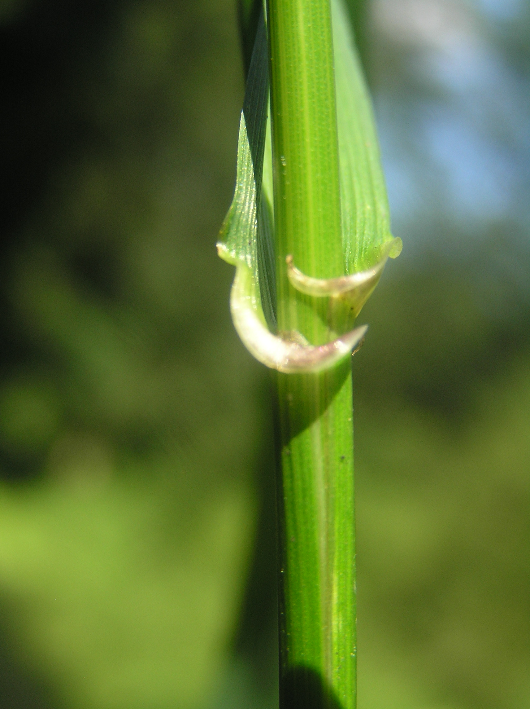 Festuca gigantea, Choceň, Czech Republic